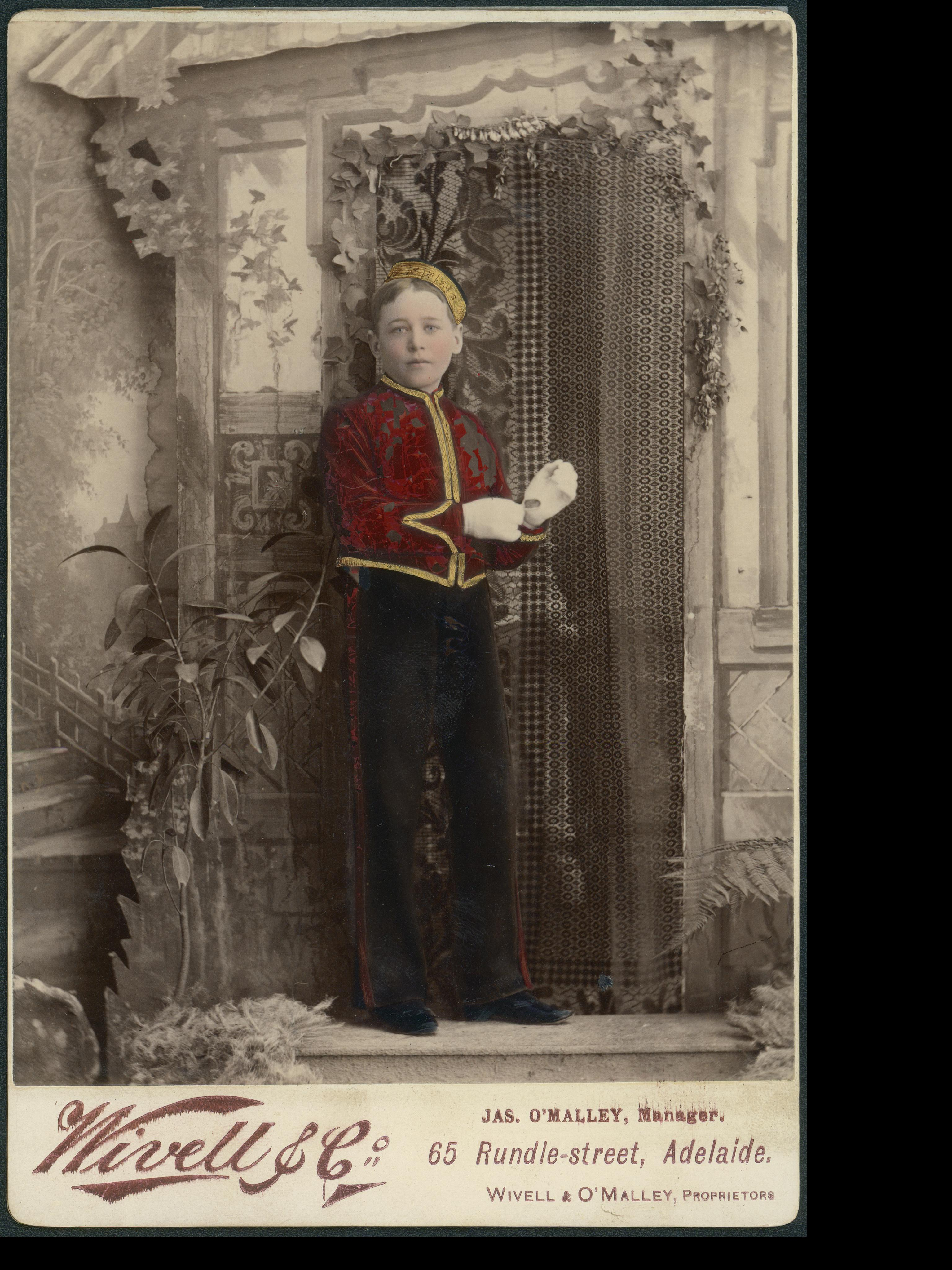 Harold Bickford aged 11 years old, dressed as an officer Harold Bickford (1876-1958) was the son of William Bickford (1841-1916) Harry Bickford (1843-1927) was the brother of William Bickford (1841-1916)